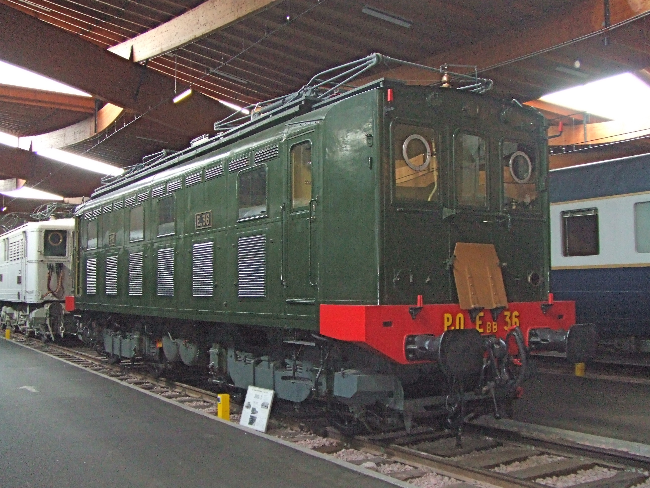 P.O. E.36 Class 1,500V dc Bo'Bo' No.E.36 (SNCF BB 36) built in 1924 for the Paris - Vierzon line, at the Cité du Train, Mulhouse, 03/2007.